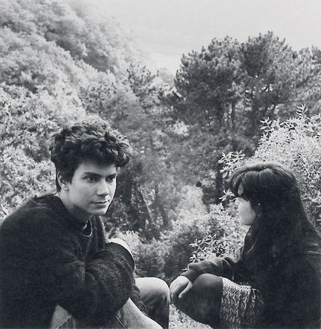 Flying Saucer Attack Outline